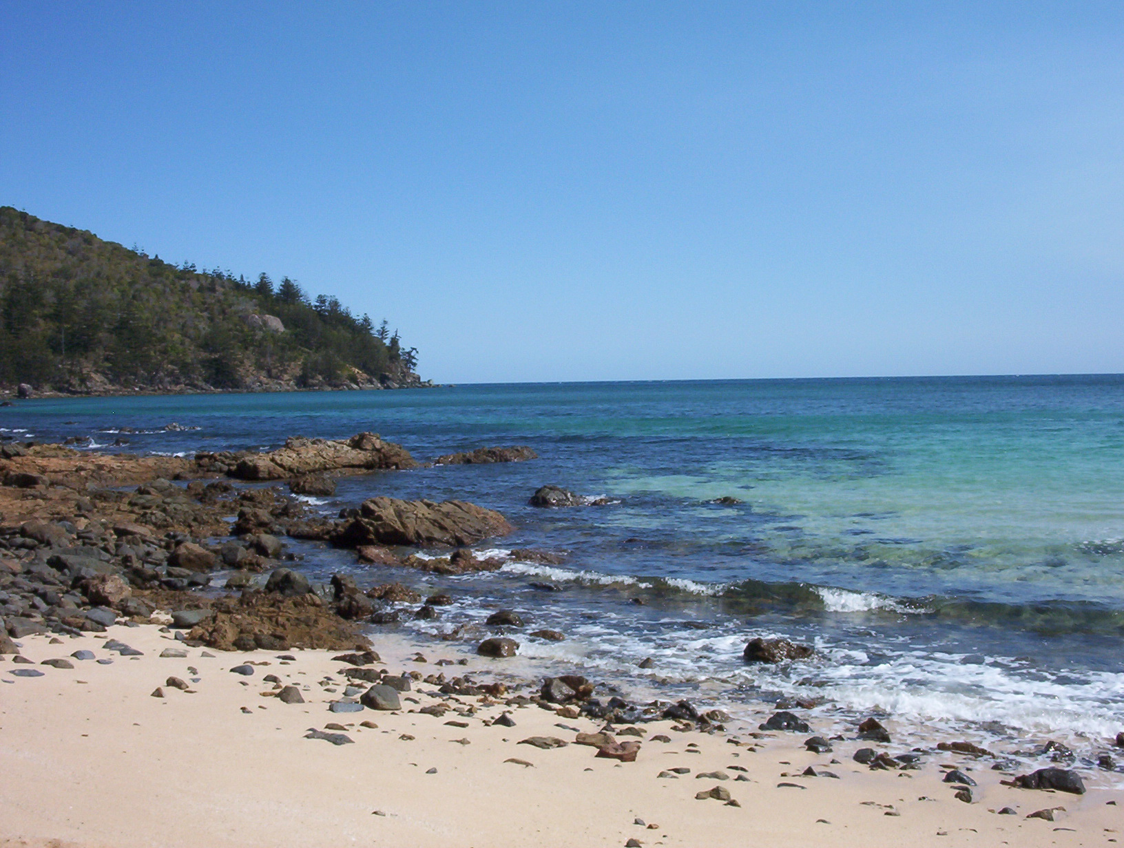 Photo I took of Brampton Island, Queensland, Australia, in December 2005.